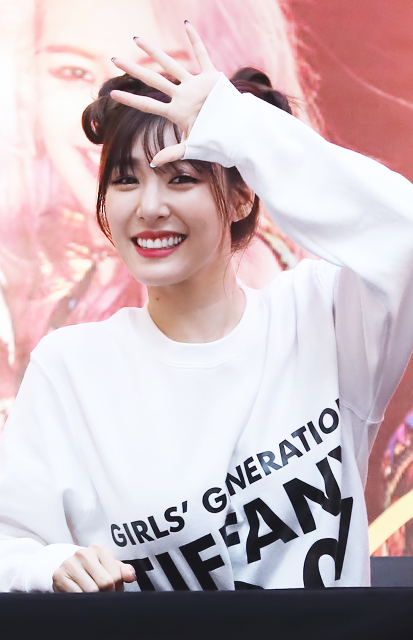 Tiffany Hwang at fansigning event in IFC Mall on August 13, 2017.